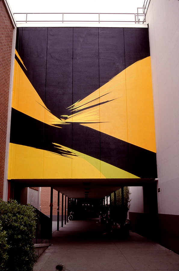 Sun Force